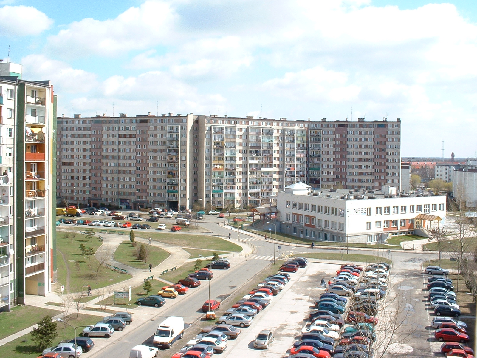 Wrocław, Poland. Gaj (read: Guy) building estate, south part as seen from north east window.